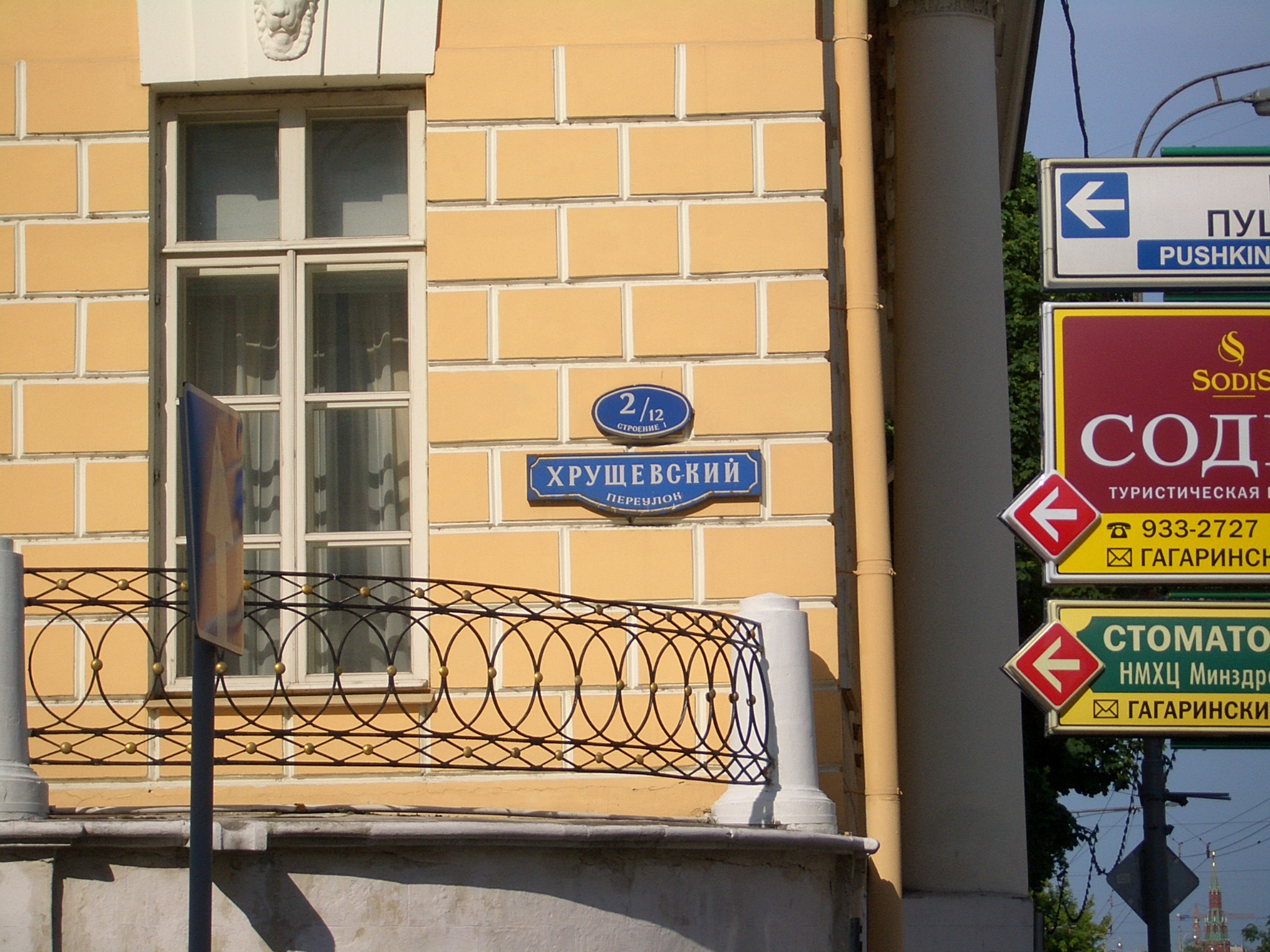 Khrushchevsky Lane (Pereulok) in Moscow is named after the Khrushchev gentry family that used to have an estate there. The building, by architect Afanasy Grigoriev, houses Alexander Pushkin Museum